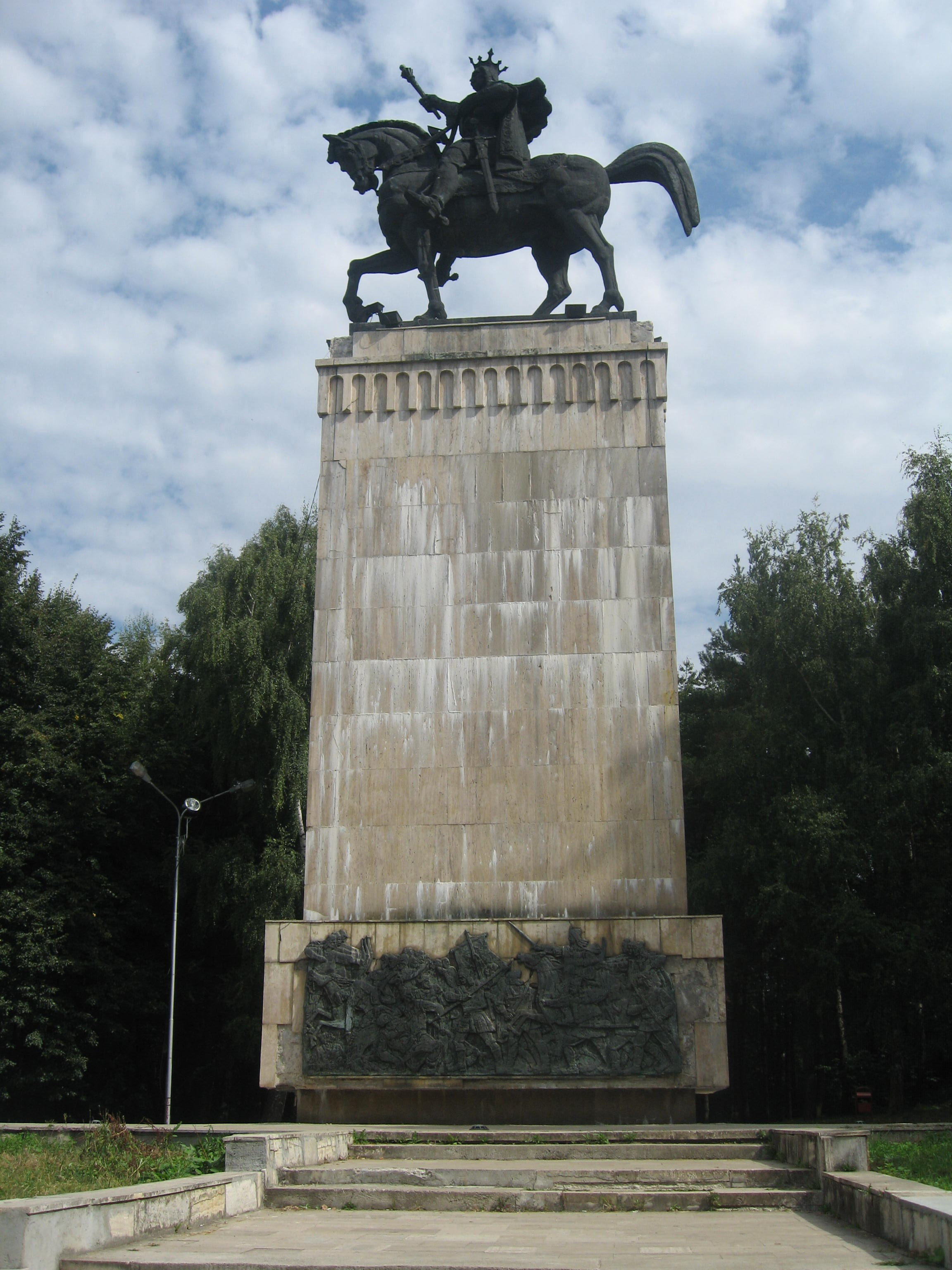 Equestrian Statue of Stephen III of Moldavia in Suceava.